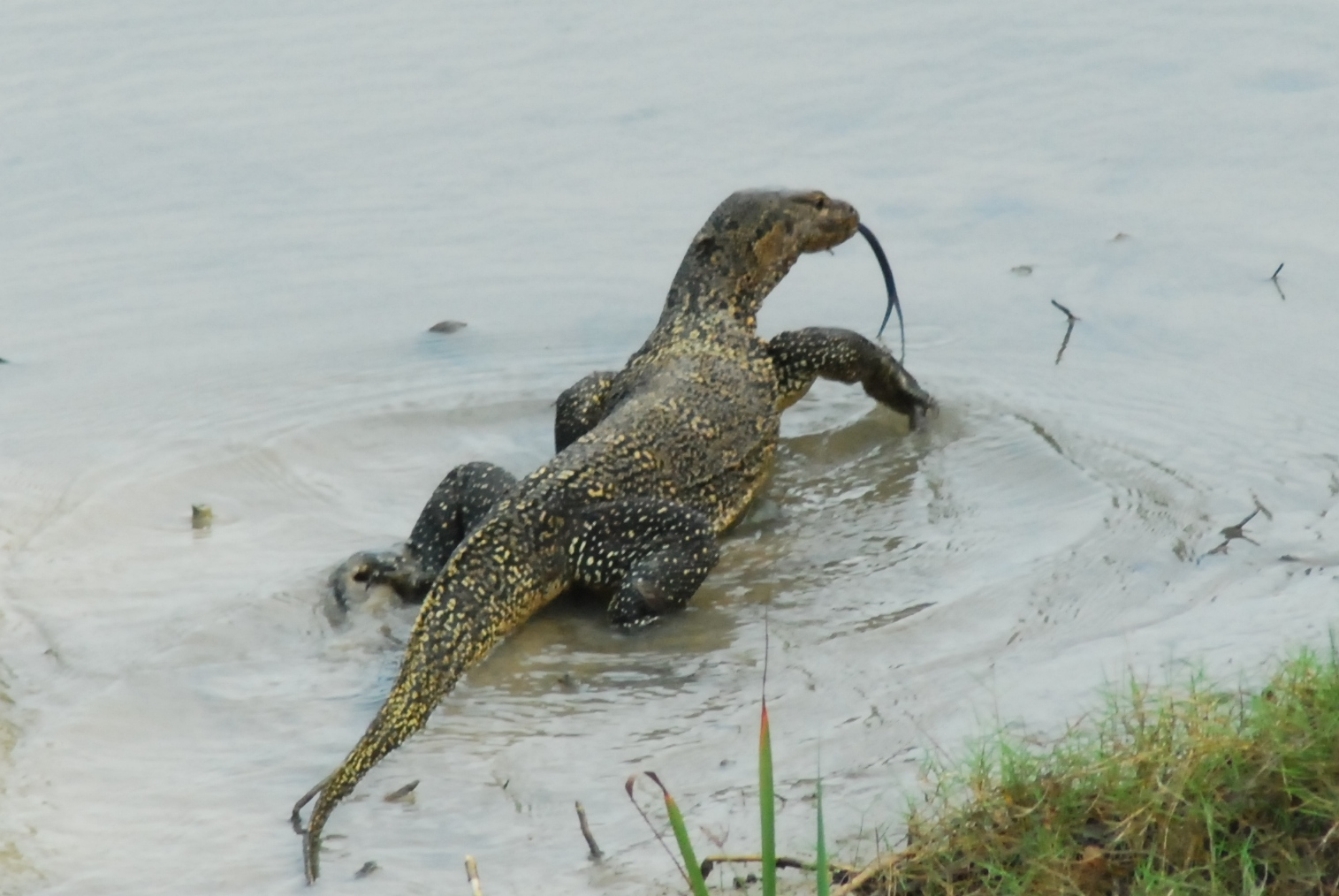 It is called স্বর্ণগোধিকা in Bangla due to the golden streaks on its body. The common name is গোসাপ